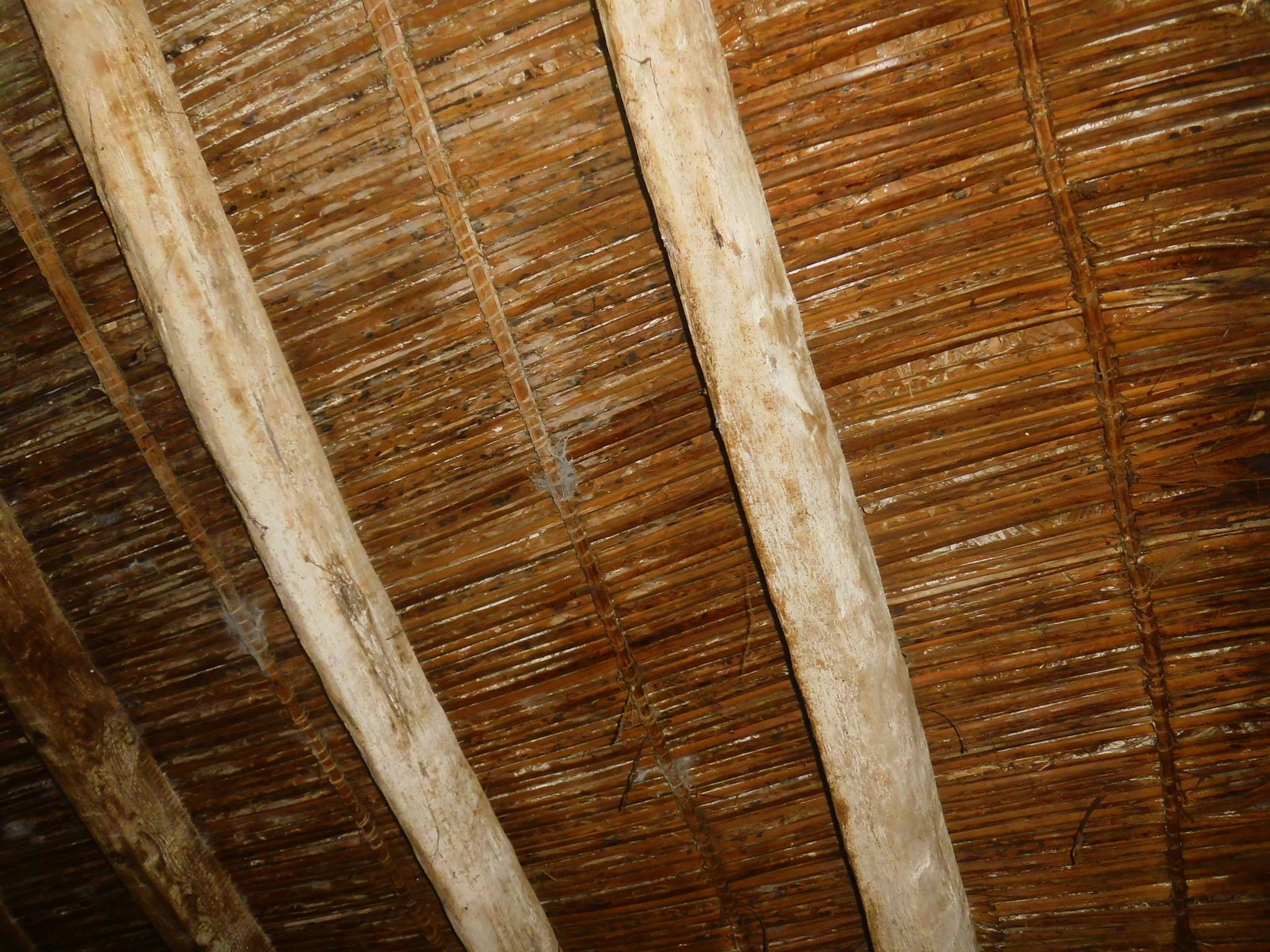 Ceiling composed of palm tree trunk